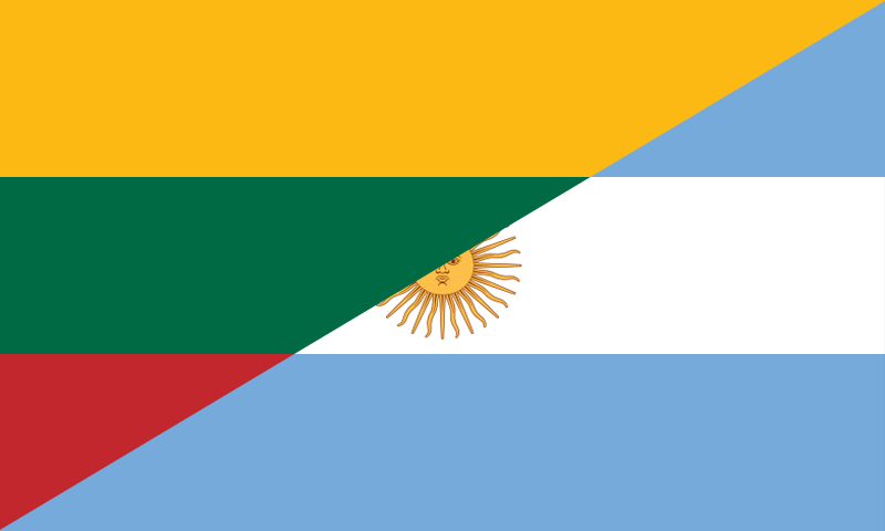 Flag of Lithuania and Argentina